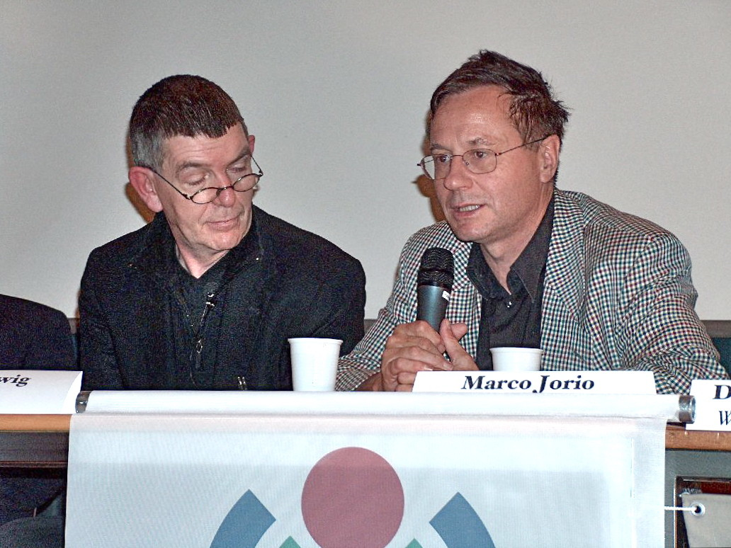 Wikipedia Day in Berne, 2007. Wolf Ludwig, Marco Jorio